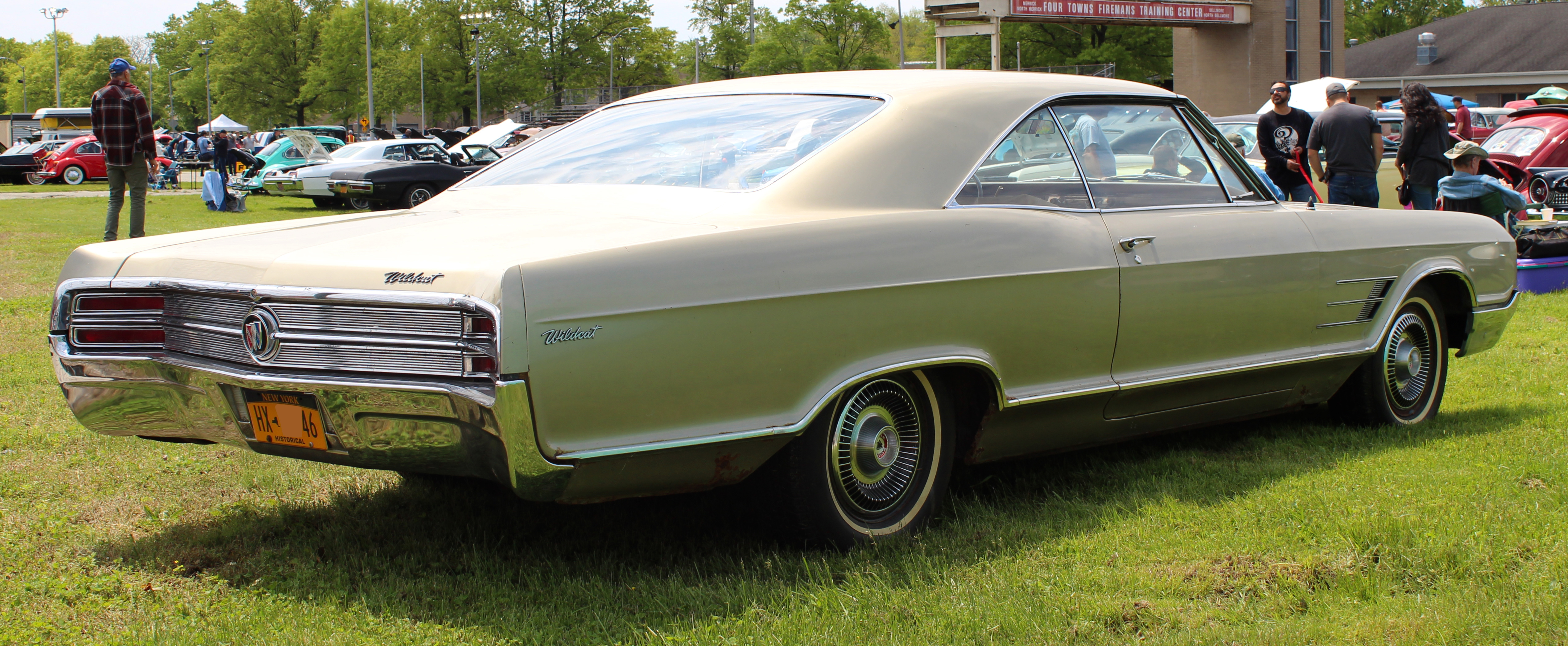 A 1965 Buick Wildcat photographed during at a classic car show, in Merrick, New York, USA